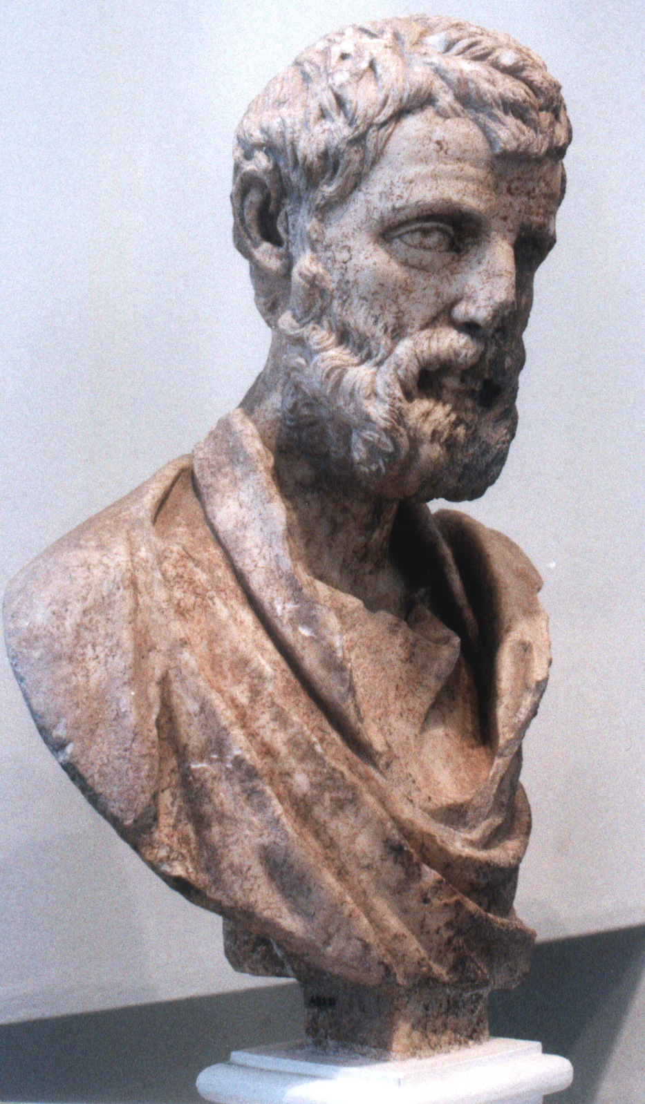 Ancient Roman bust of Herodes Atticus, from his villa at Kephissia. mid 2nd c. CE. Inv. no. 4810. National Archaeological Museum in Athens, Room 32.